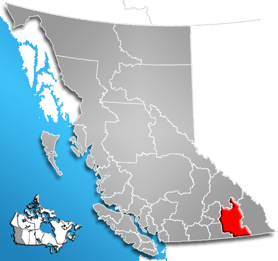 Location of Regional District of Central Kootenay, British Columbia